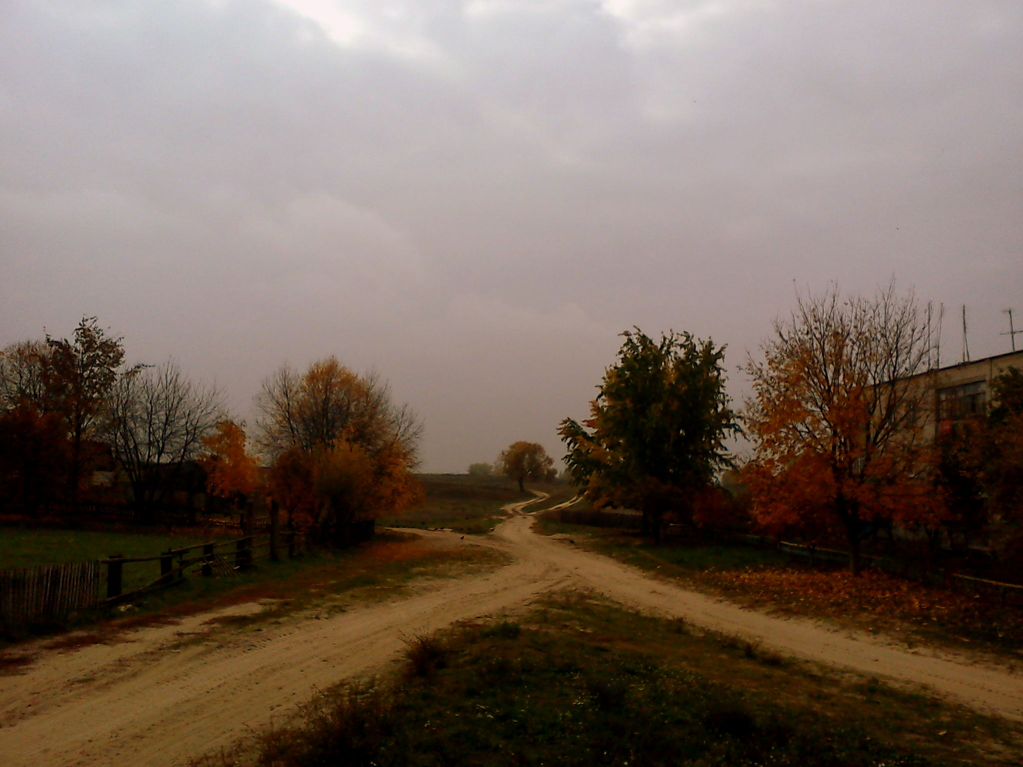 Village Krugovets-Kalinina in Belarus